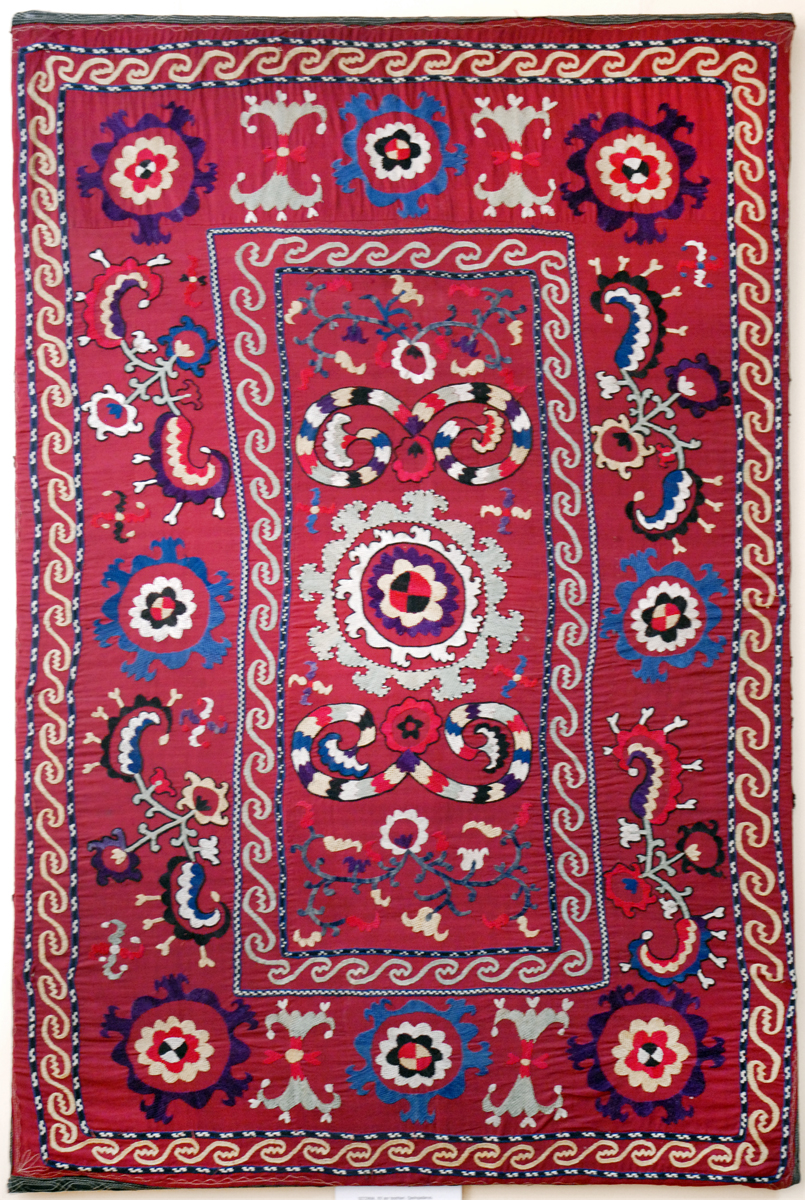 Suzane (tenture brodée) wall embroidery early 20e century Kashkadarya Fabric, hand embroidery